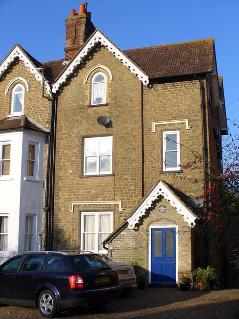 PG Wodehouse House. On Epsom Road, central Guildford. "Plum" was born in Guildford in 1881 and is renowned for his Bertie Wooster novels. Note the plaque above the door.